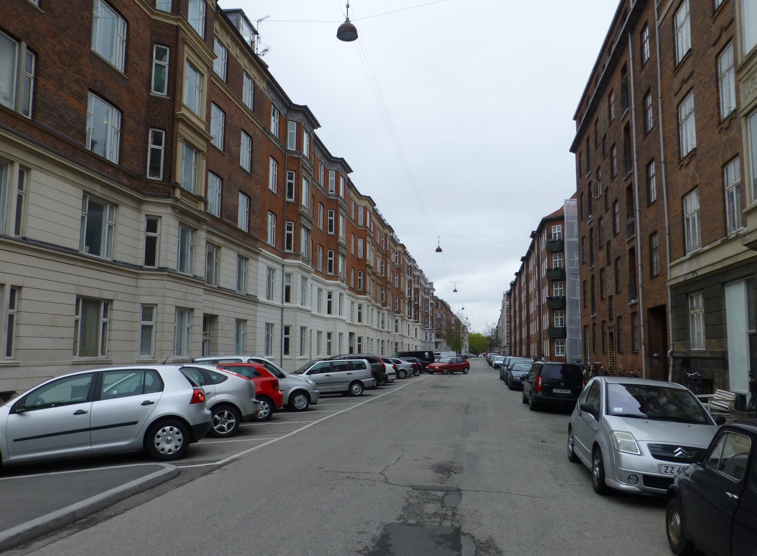 The street Livjægergade in Østerbro in Copenhagen.